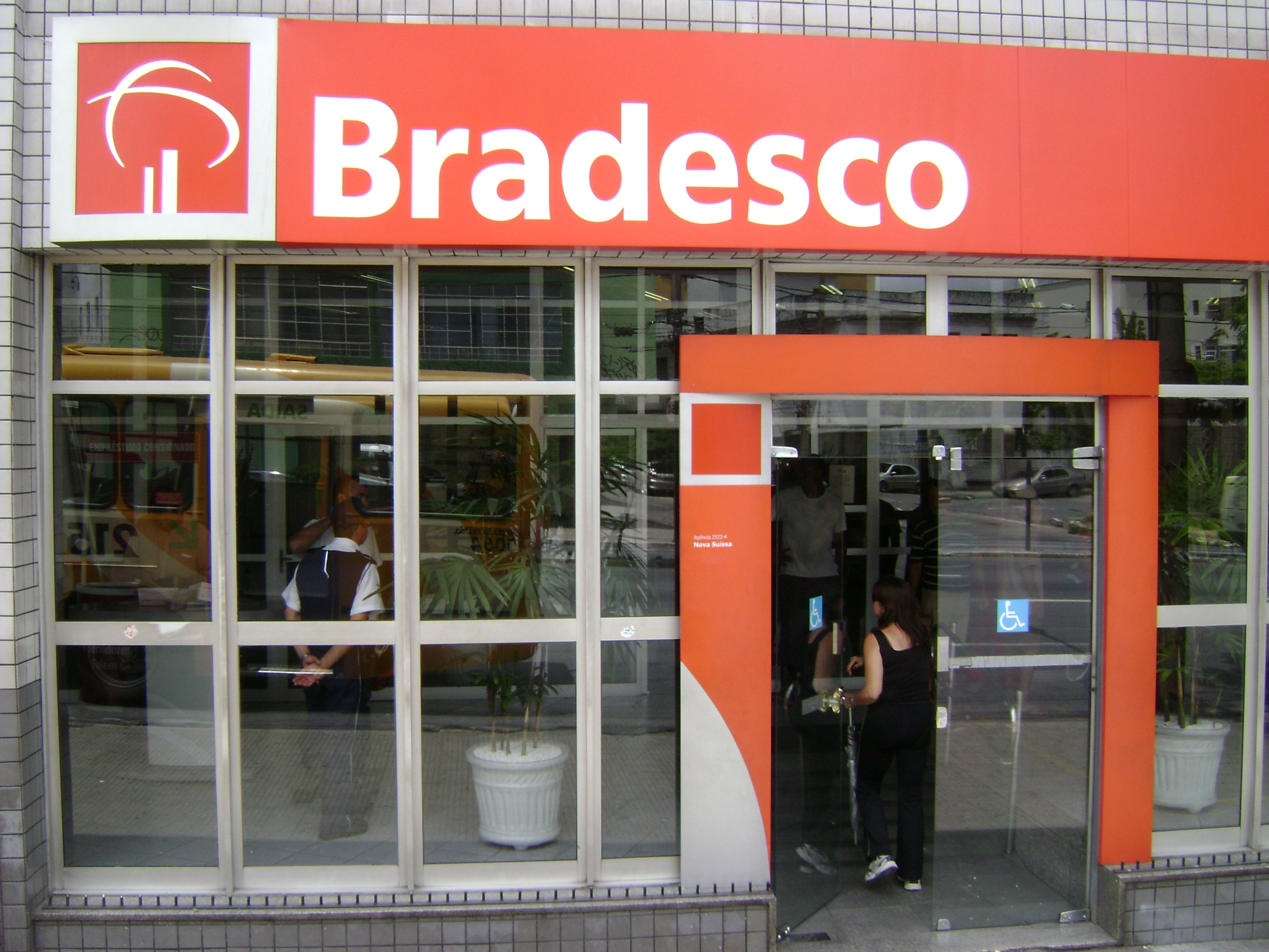 Agência do banco Bradesco em Belo Horizonte.